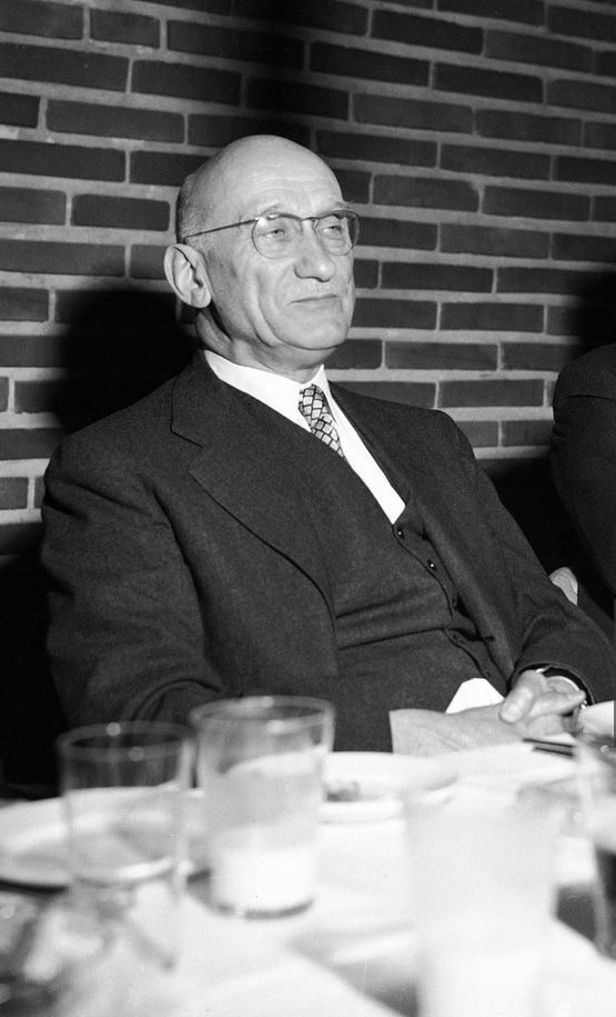 Photograph of the French foreign minister Robert Schuman visiting Espoo, Finland.